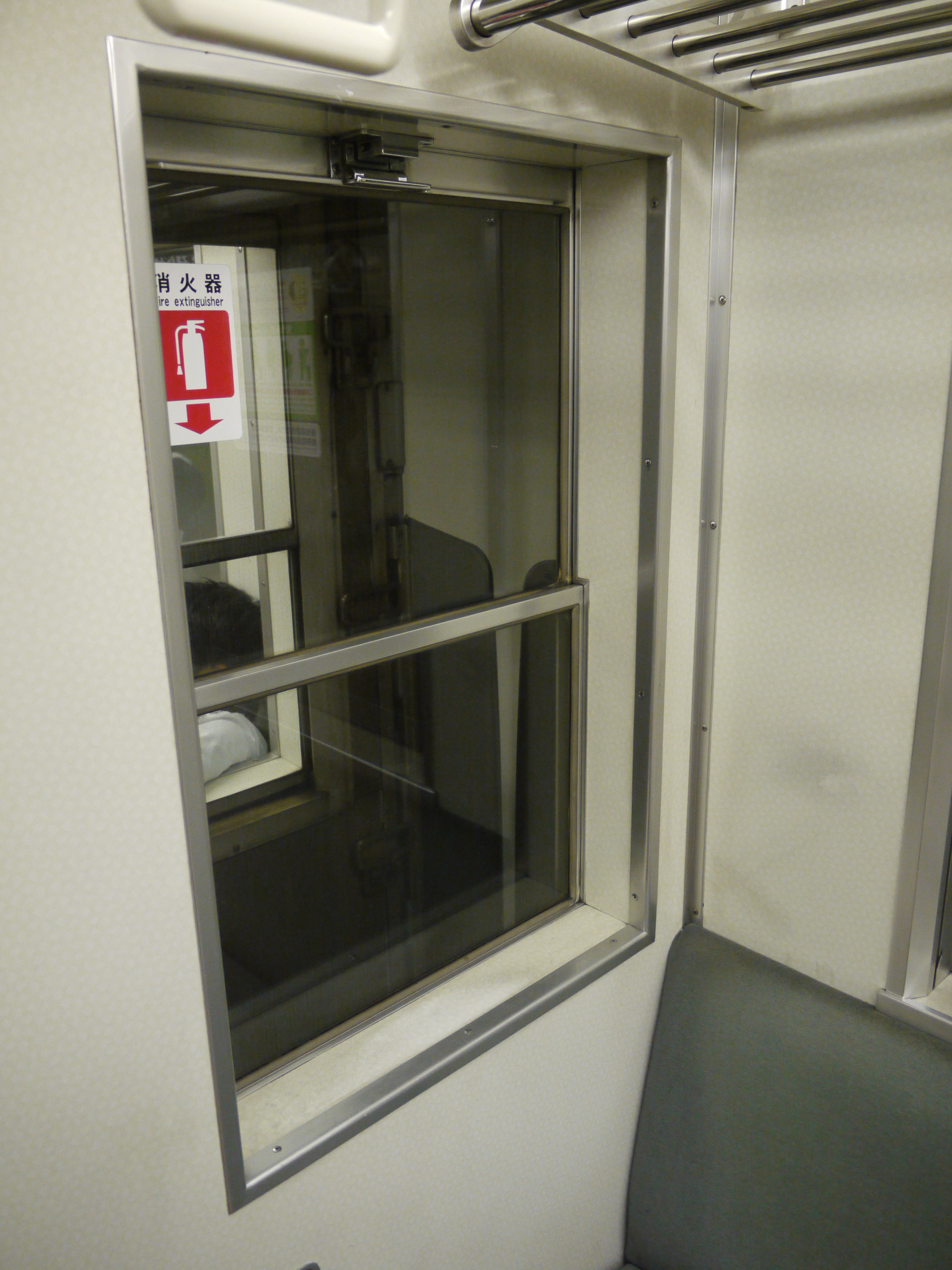 A window on Kyoto subway 10 series